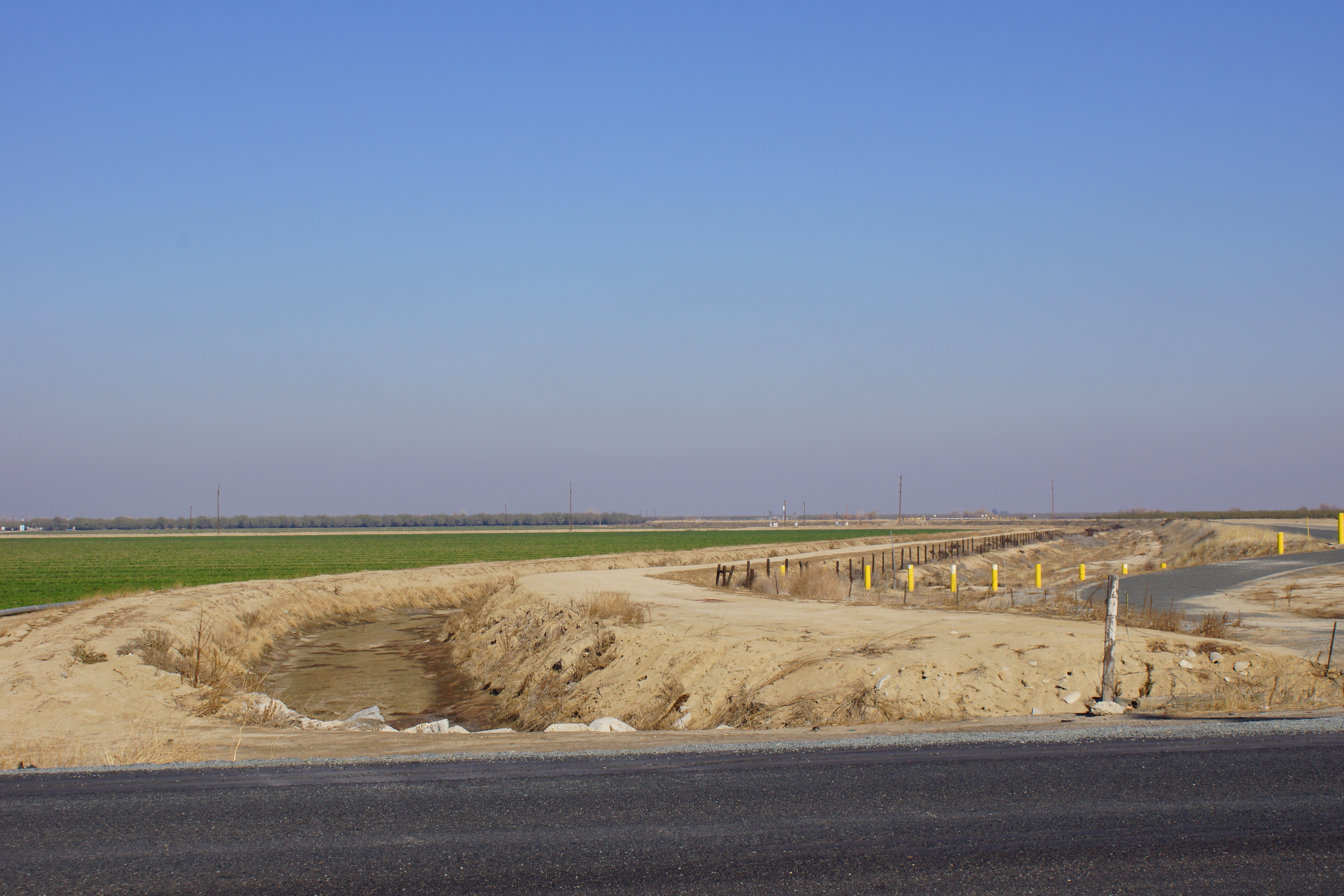 2013, Drainage Ditch, Friant-Kern Canal, Central Valley Project Irrigation System